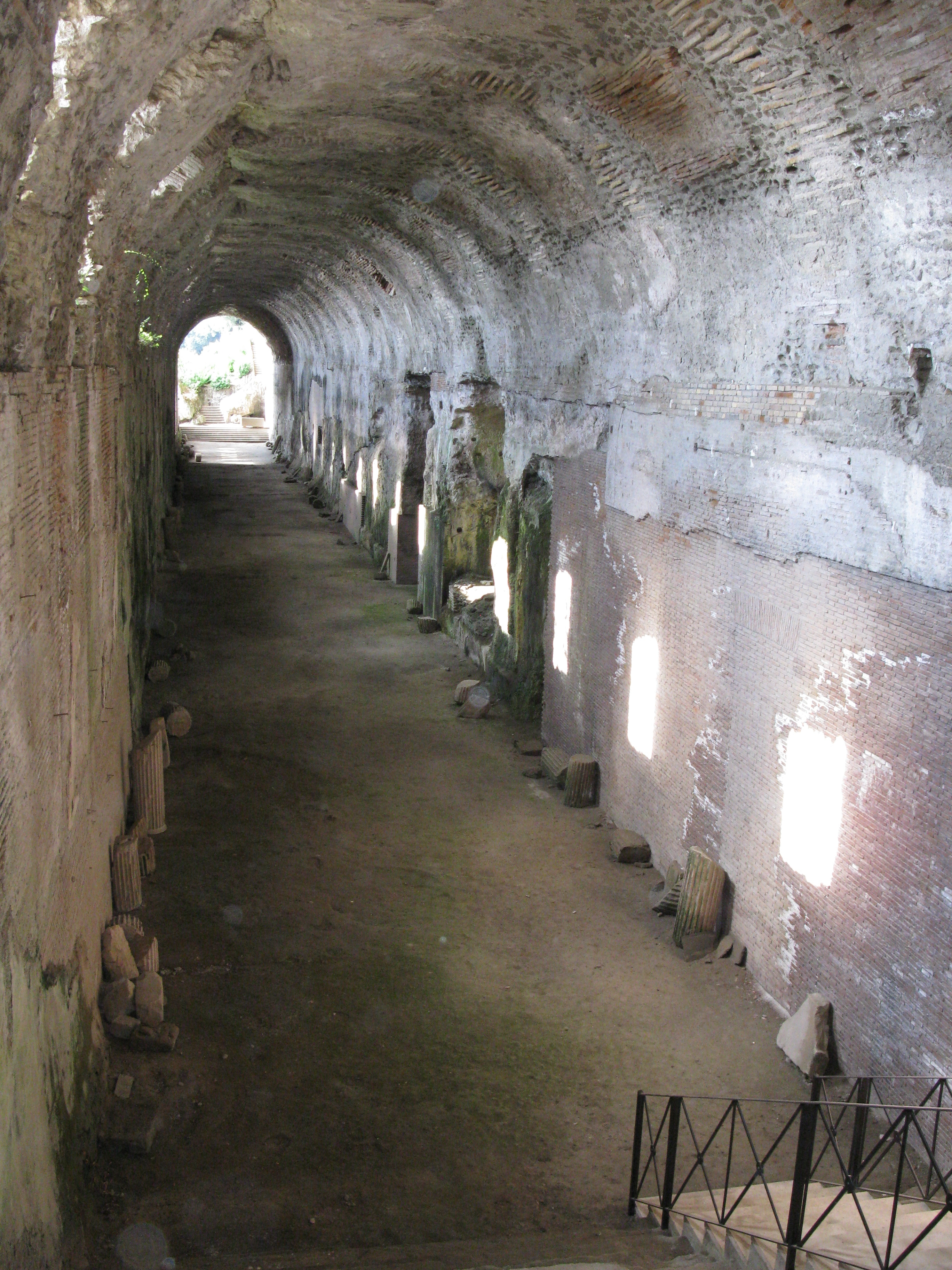 View of the cryptoporticus at the remains of the Villa of Domitian (now part of the Gardens of Villa Barberini (part of the papale summer residence). Castel Gandolfo, Italy.